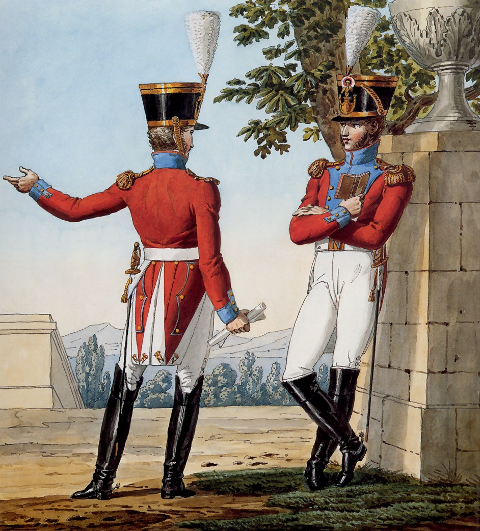 Part of a series chronicling the uniforms of Napoleon's Grande Armée.